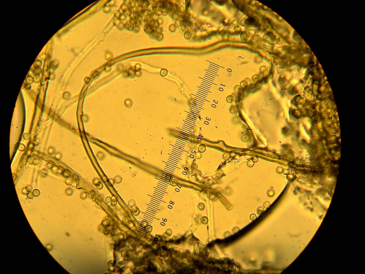 Microscopy of capillitia and spores of the puffball species Lycoperdon echinatum.